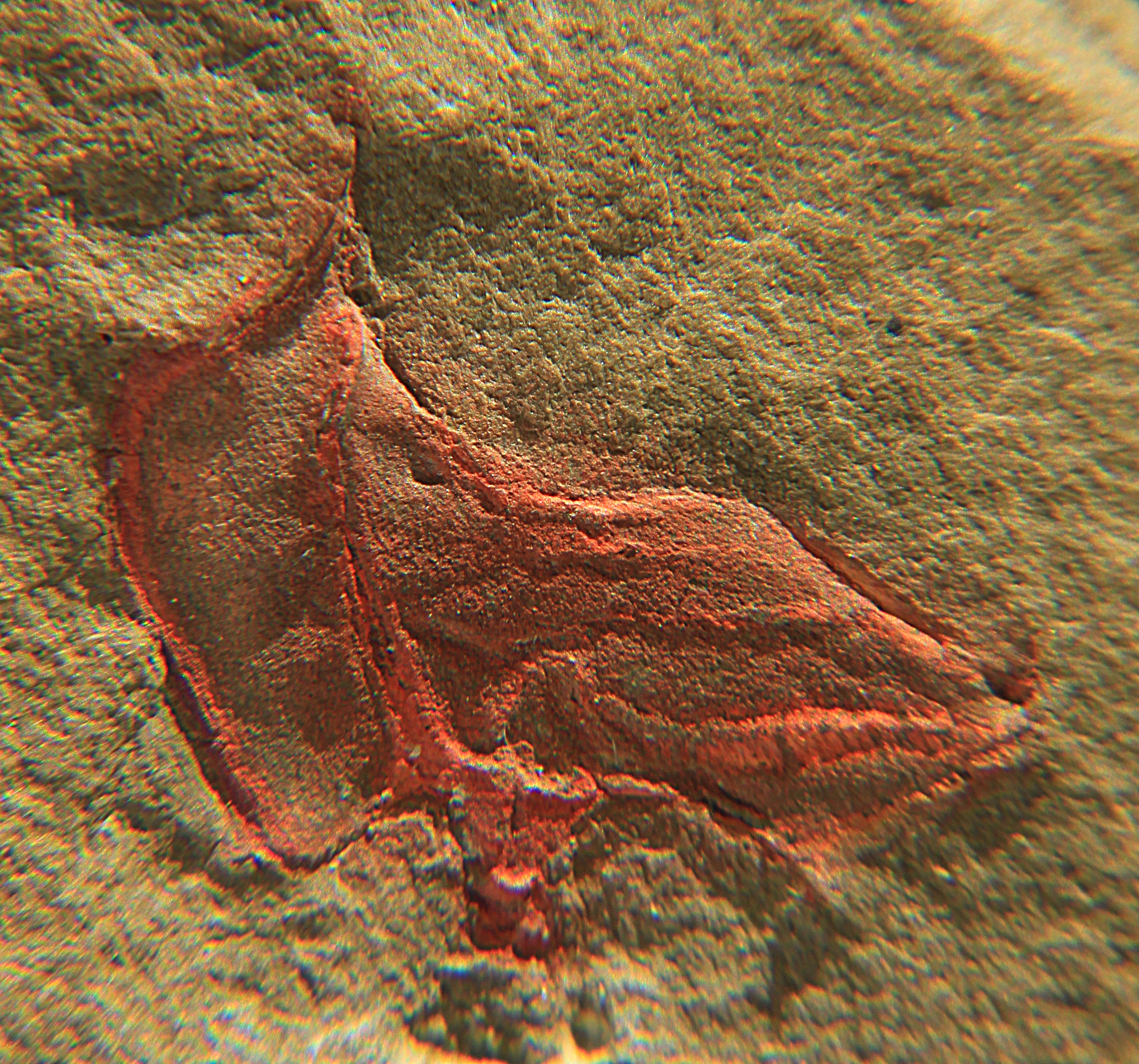 A carpoid of of the species Cothurnocystis elizae, 18mm measured across the theca, (sub)class Stylophorida, family Cothurnocystidae, collected in the Zagora region, Morocco, from the Lower Ordovician (first half of the Floian).